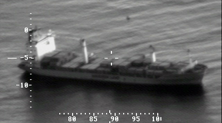 090409-N-0000X-032 INDIAN OCEAN (April 9, 2009) In a still frame from video taken by a P-3C Orion aircraft, the U.S.-flagged container ship Maersk Alabama is seen Thursday, April 9, 2009 in the Indian Ocean. (U.S. Navy Photo)